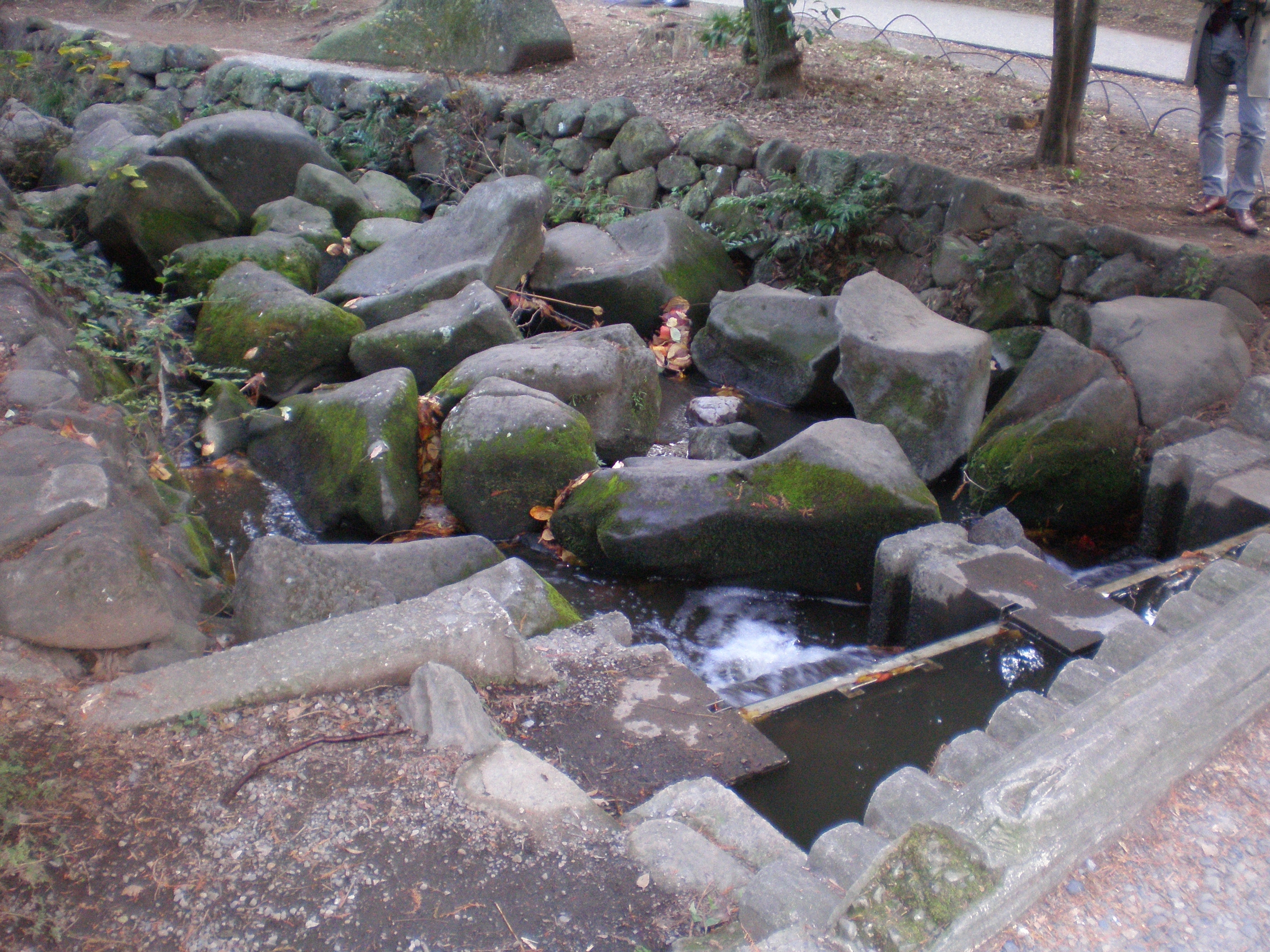 Source of Kanda River at Inokashira Park.